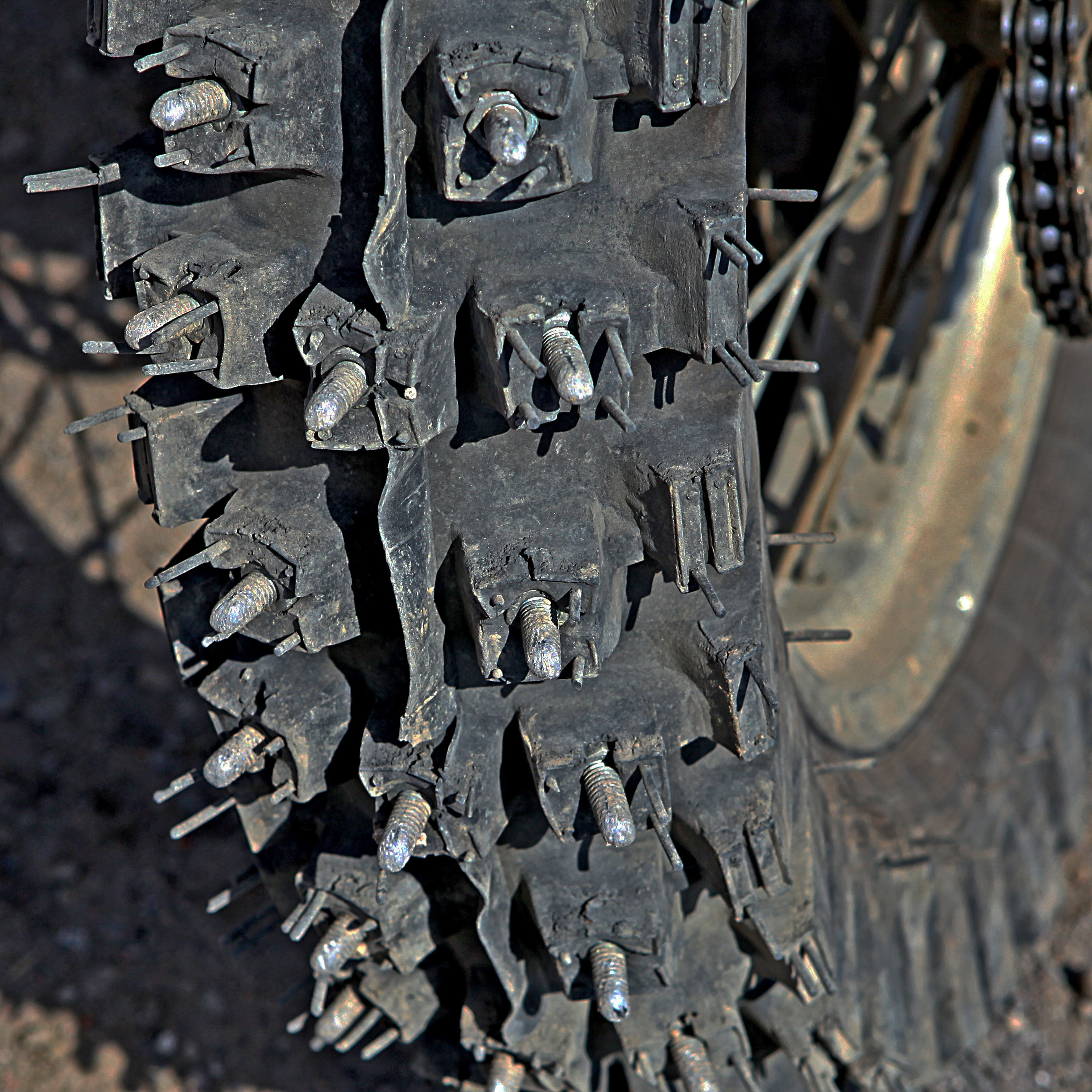 One mean rear tire. Arninge Hillclimb 2009.